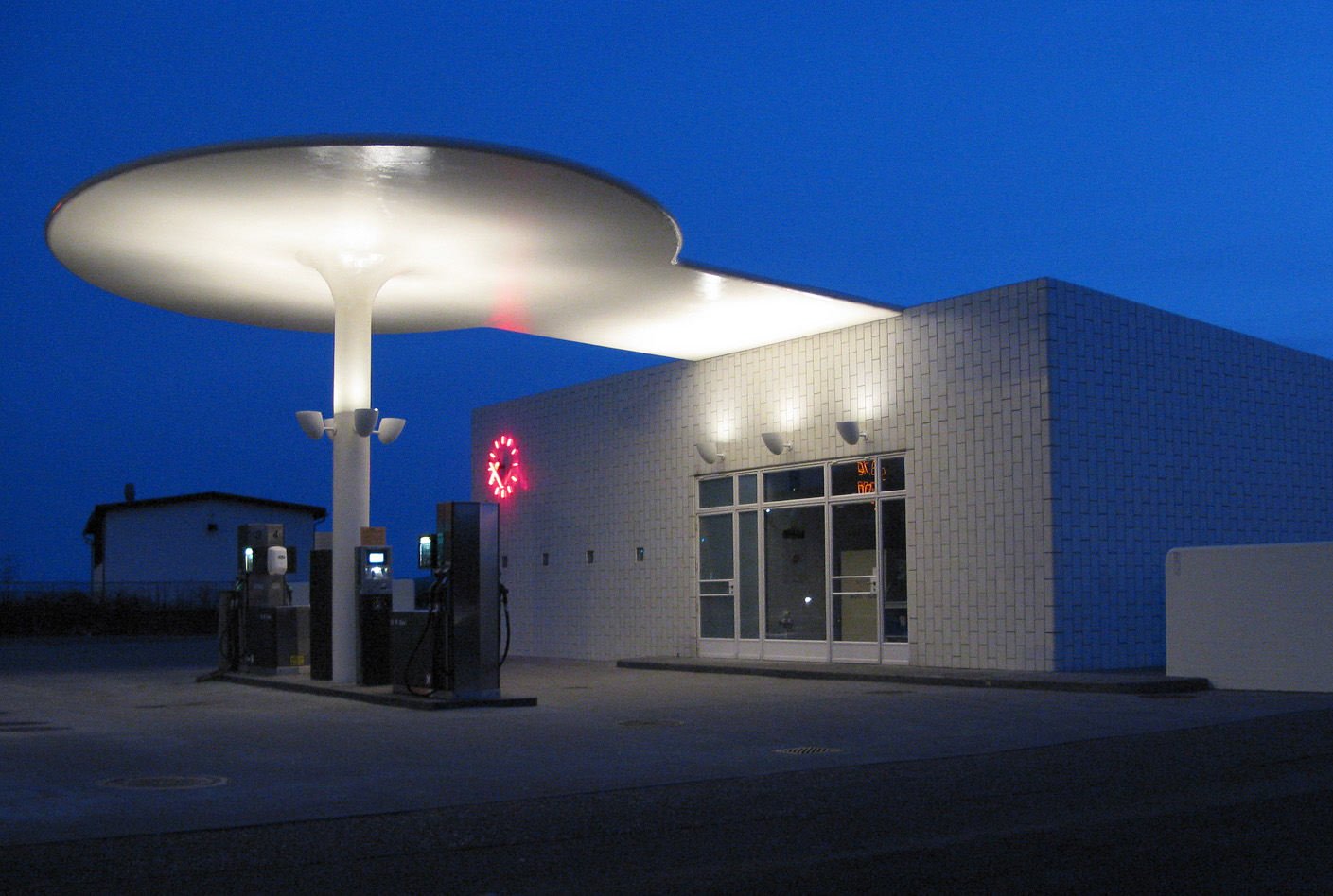 Arne Jacobsen, Tankstation, Belysning